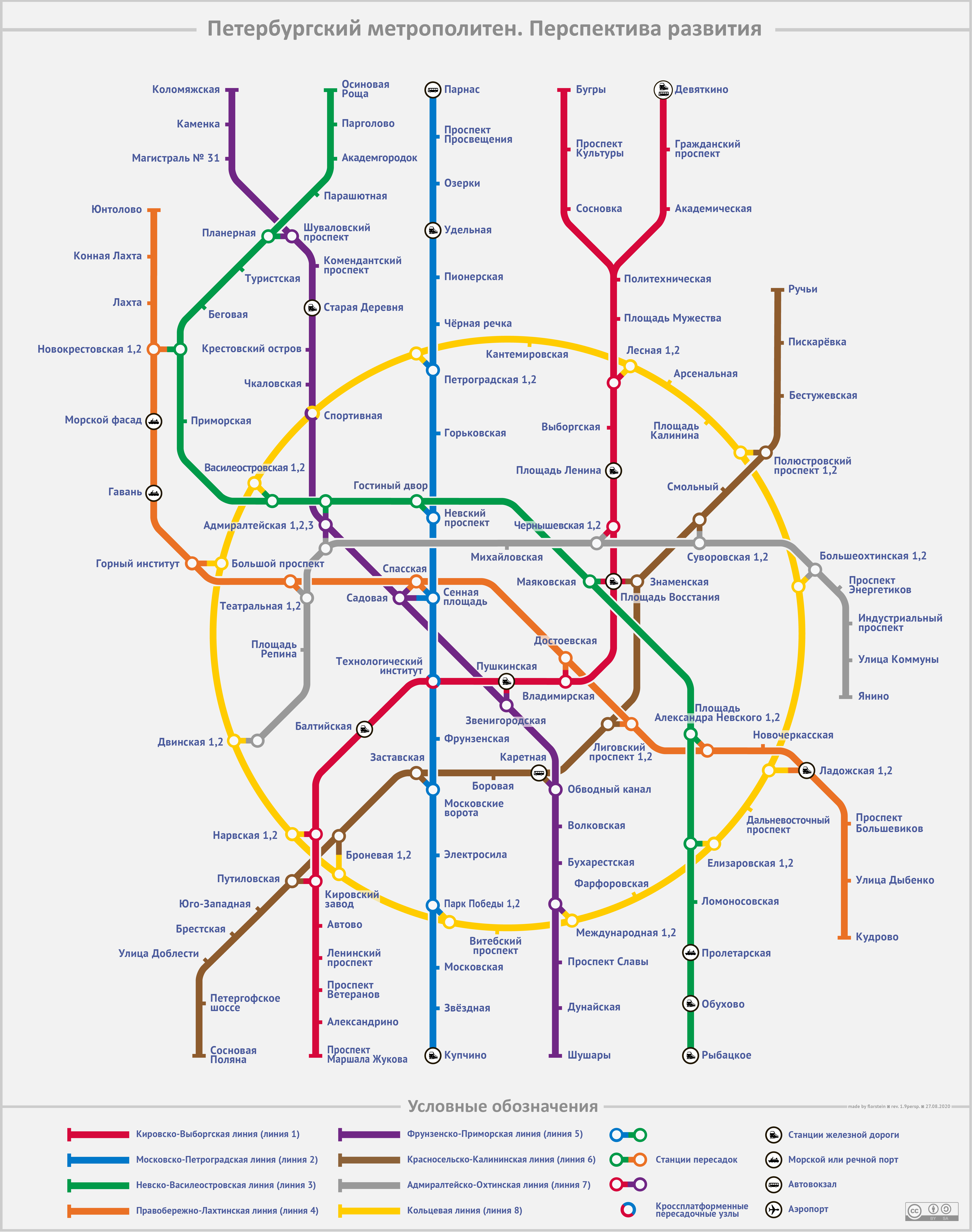 Saint Petersburg metro development map.